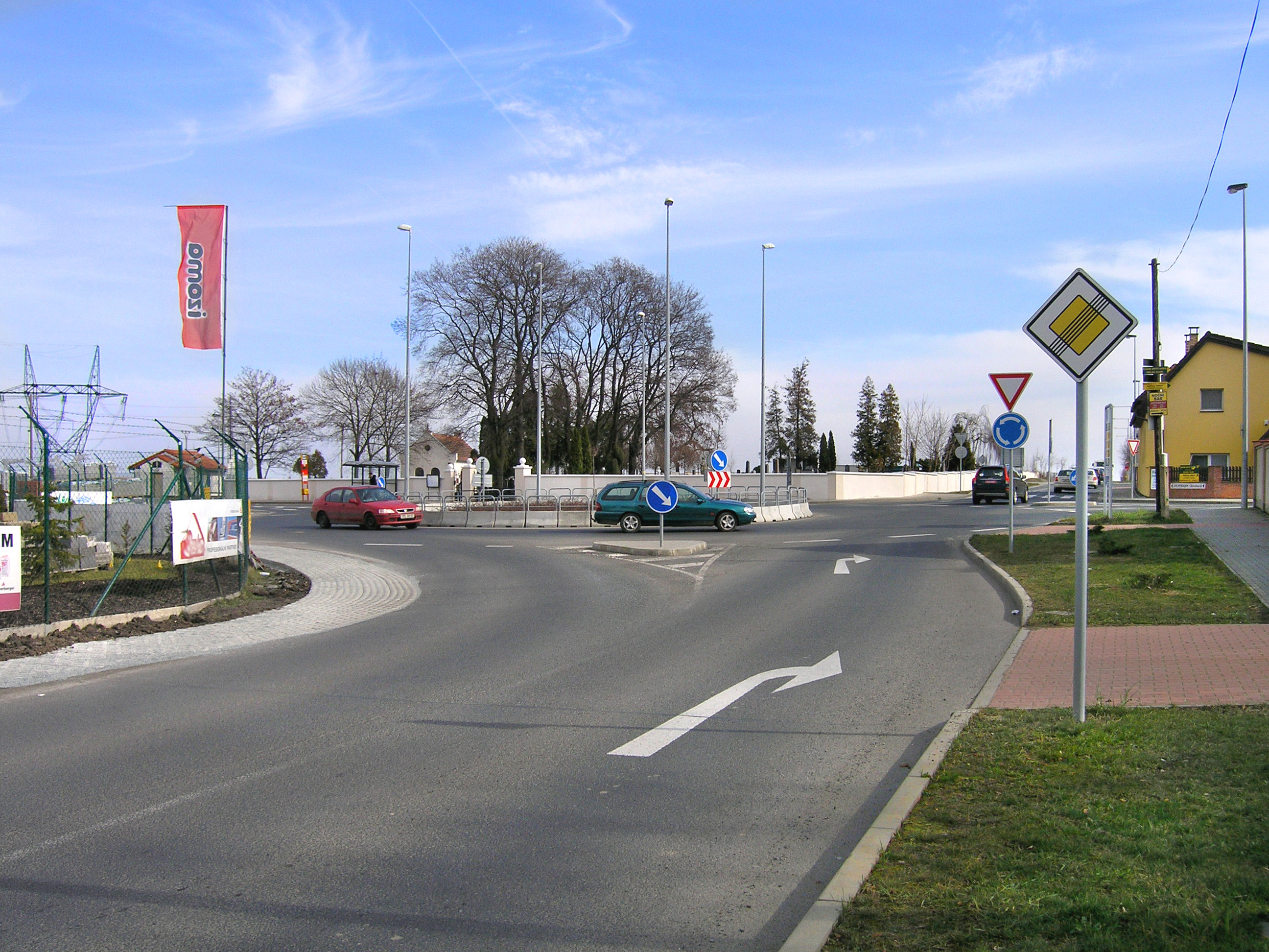 Roundabout and cemetery at Hrnčíře, Prague